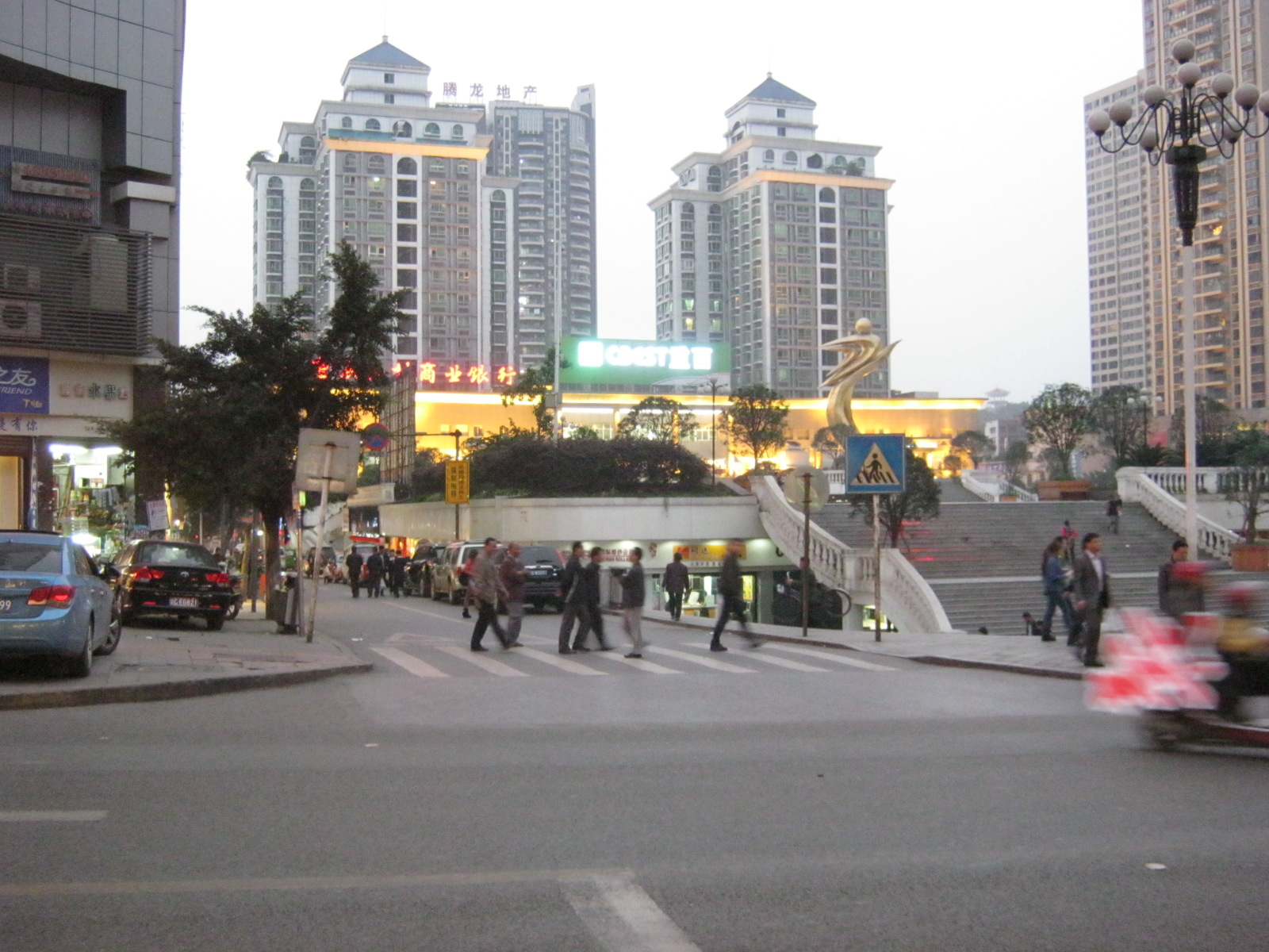 YongChuan in 2012